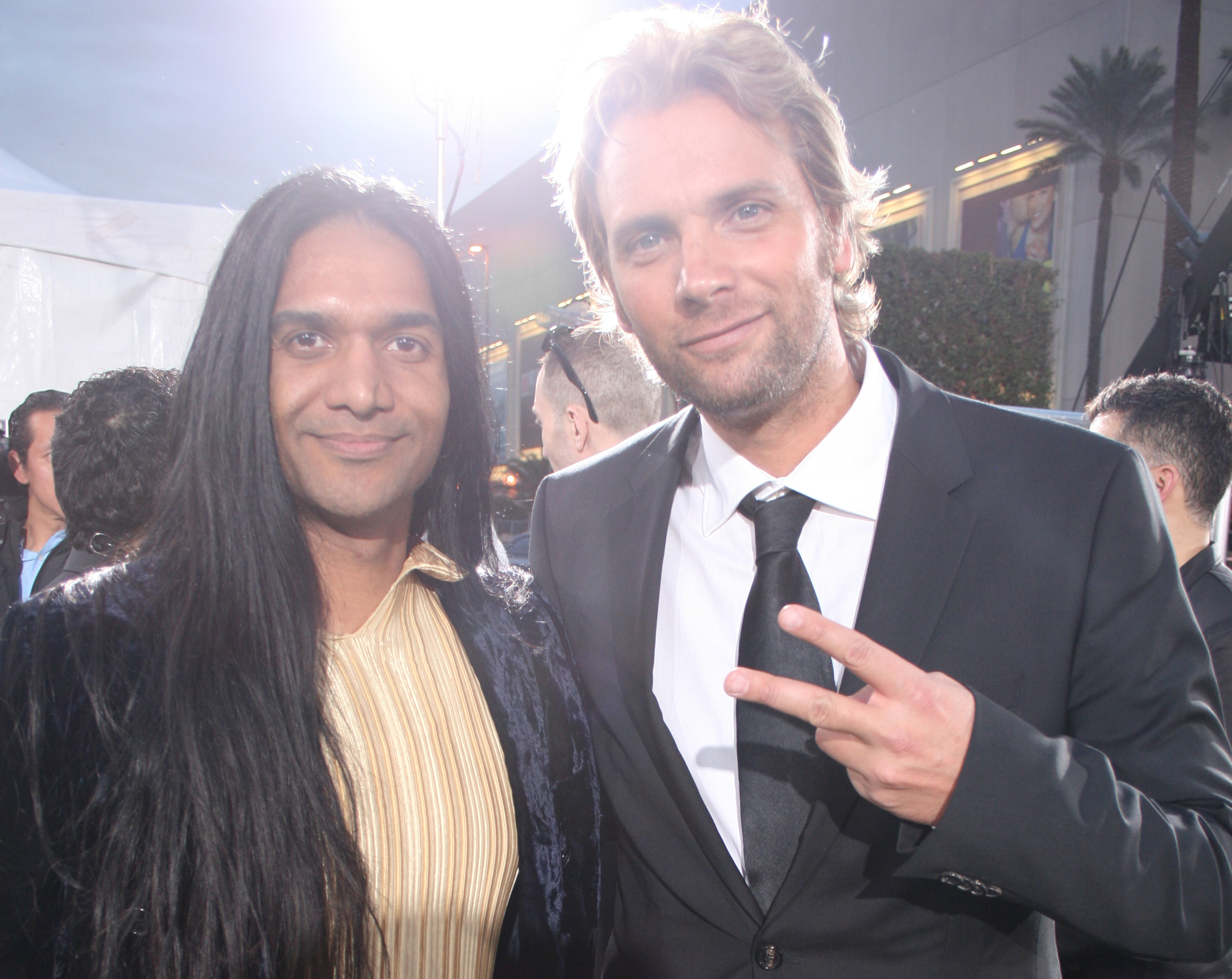 Anand Bhatt & Patricio Borghetti